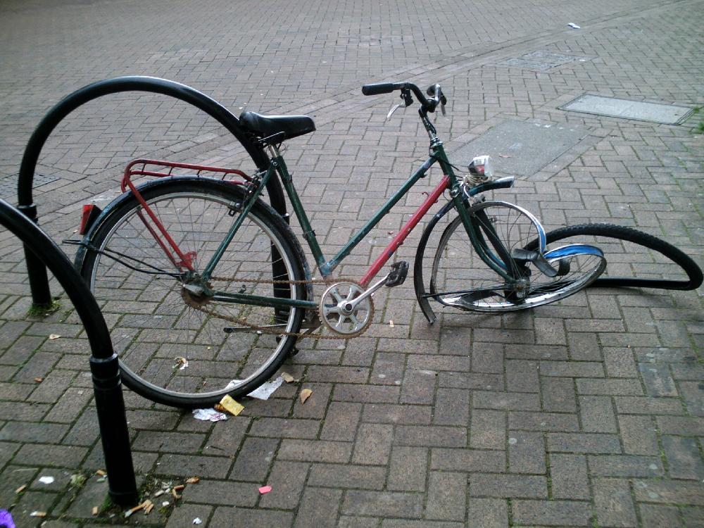 Photograph of a damaged bicycle, to illustrate the relationship between "damage" and "destruction" as regards criminal damage in English law.